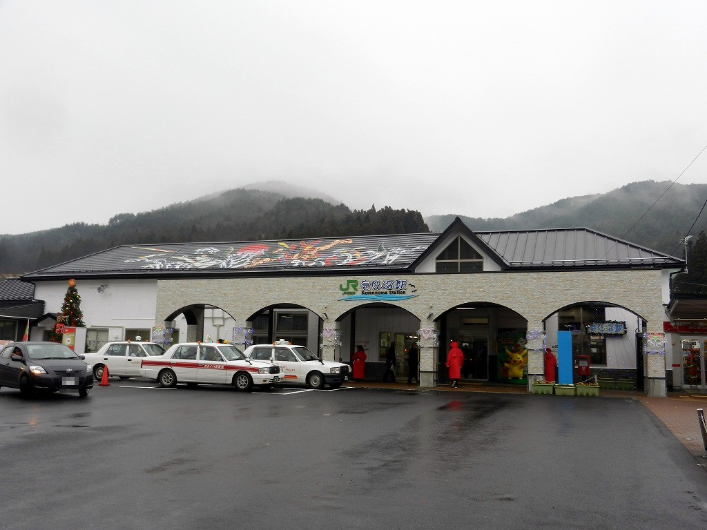 JR East Kesennuma station (after renewal 2012)